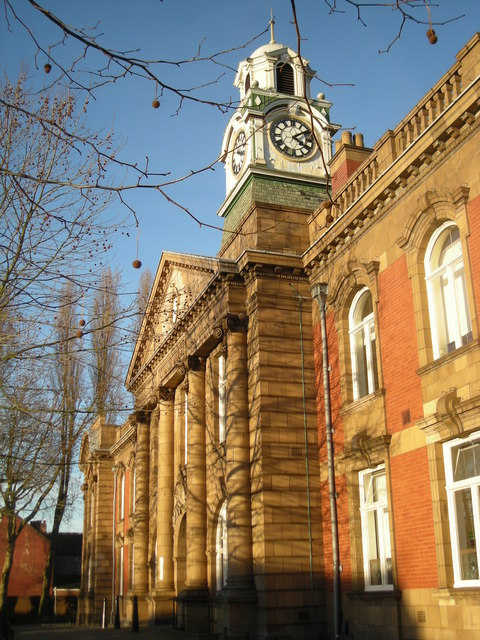 The Council Chambers - Smethwick